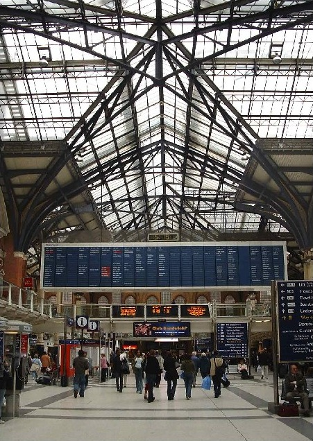 Liverpool Street Station. The interior of the station showing the train timetable.